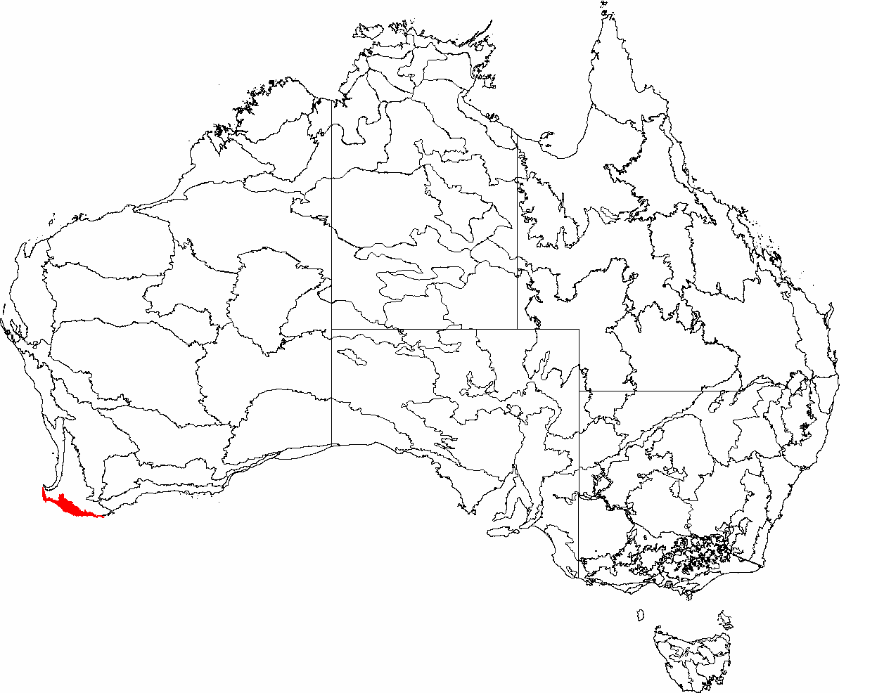 This is a map of the Interim Biogeographic Regionalisation of Australia (IBRA), with state boundaries overlaid. The Warren region is shown in red.